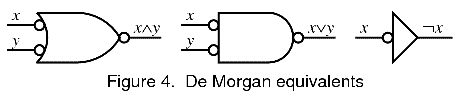 Schematic symbols for the De Morgan duals of AND and OR gates and inverters